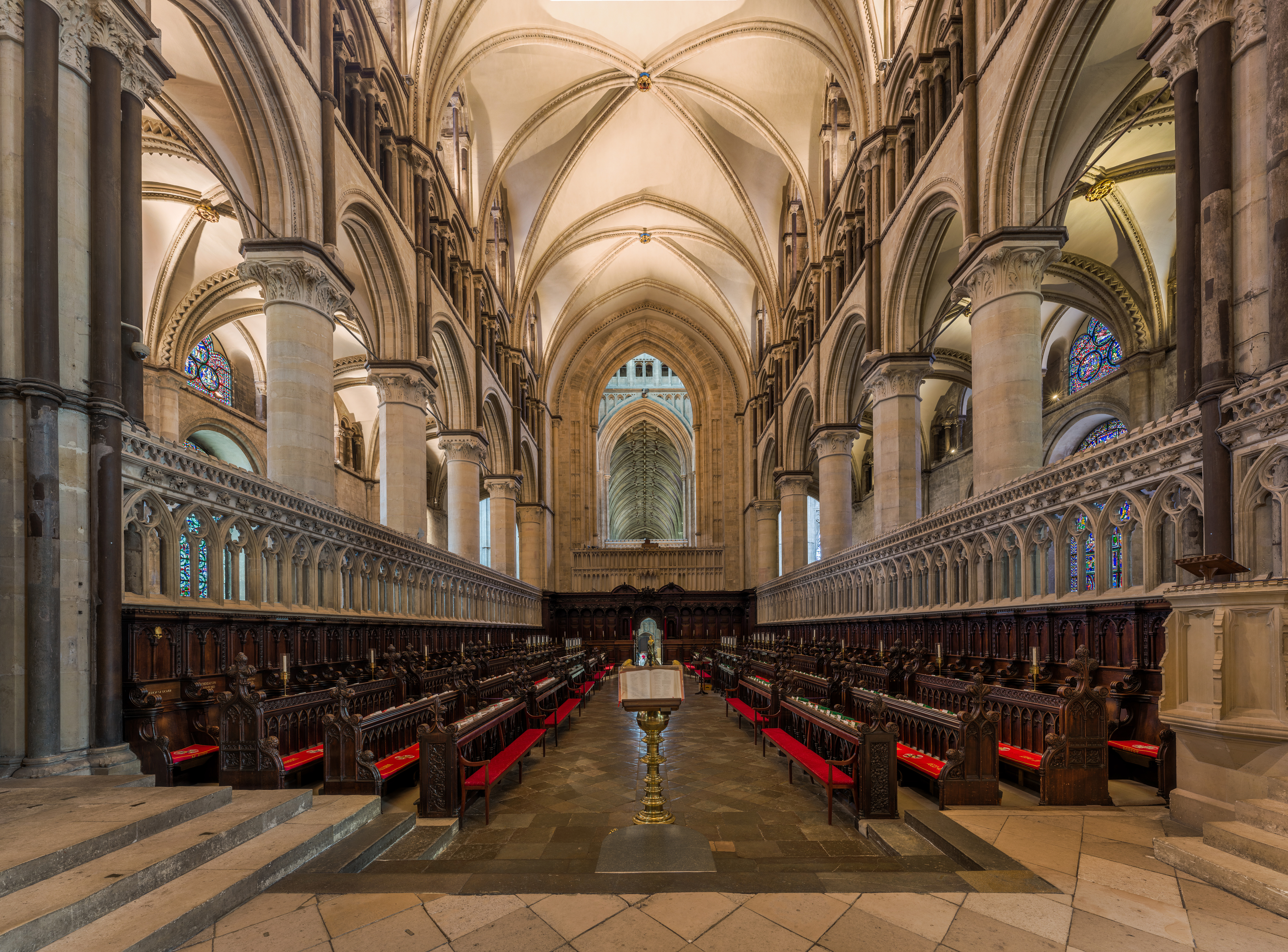 The choir of Canterbury Cathedral, looking west toward the nave.